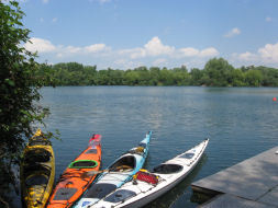 scenic view to the Schwafheimer Bergsee with kayaks from the WSV Moers.